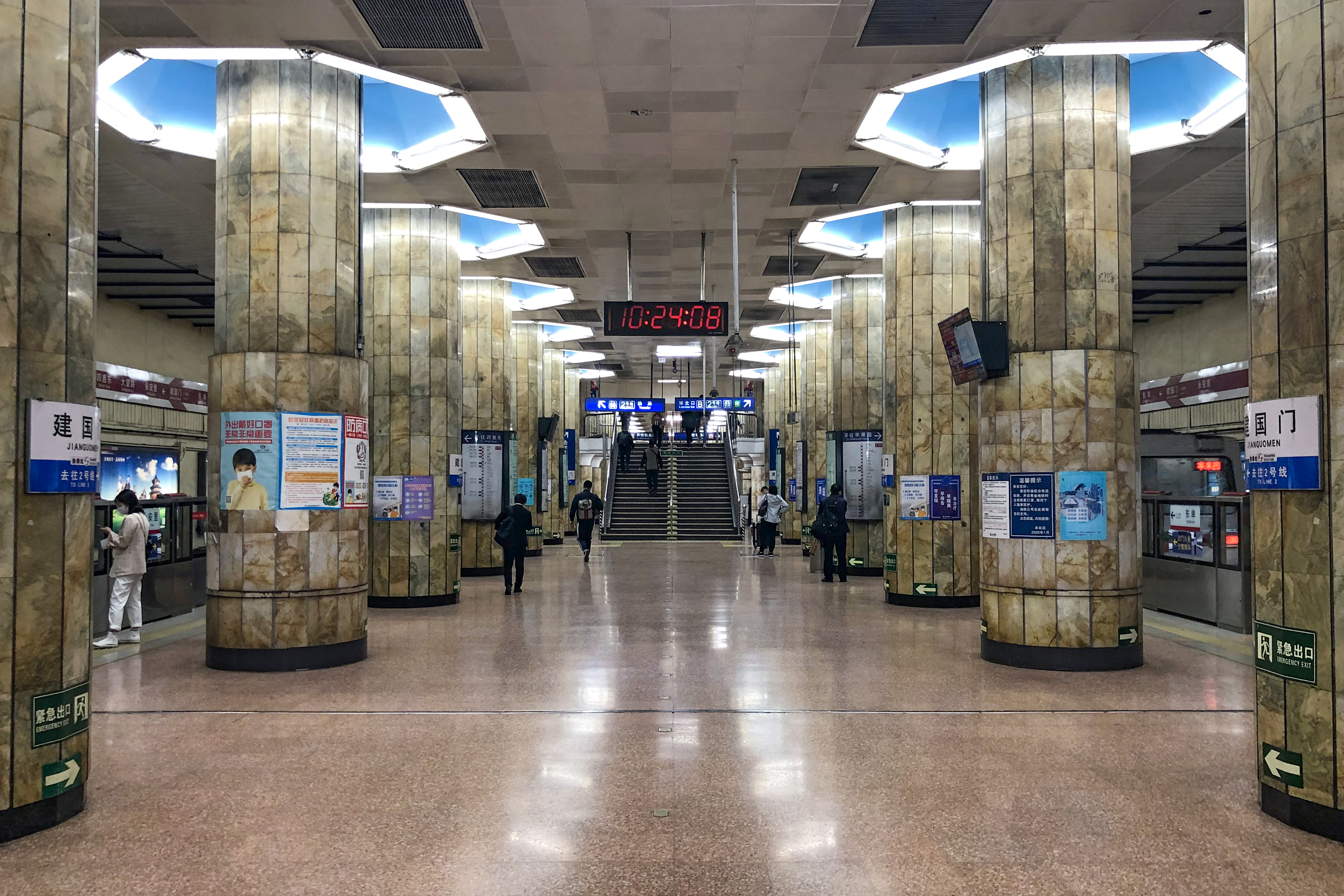 From Line 2 interface.